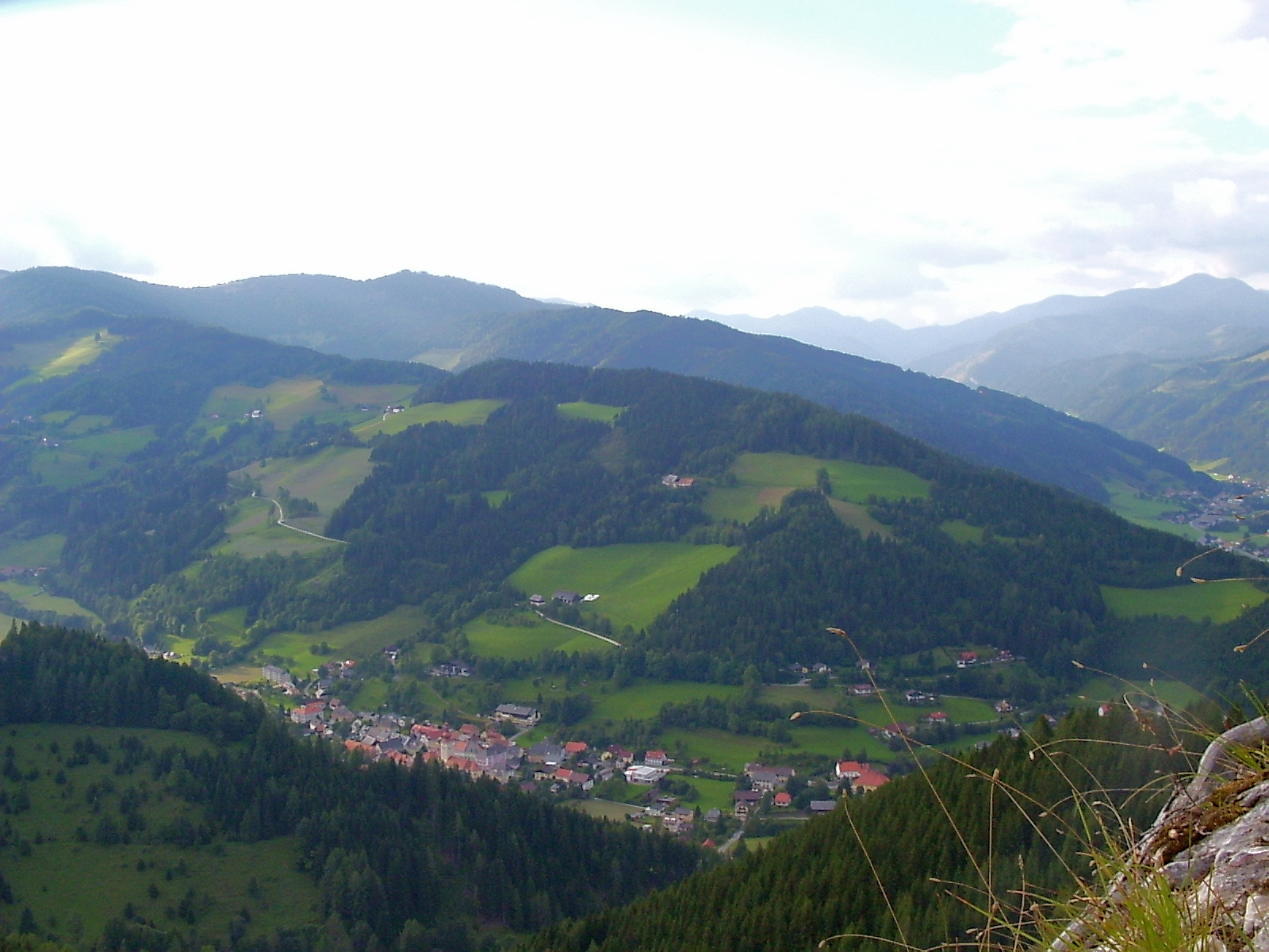 "View from the Zugtal Hill", Oberzeiring.